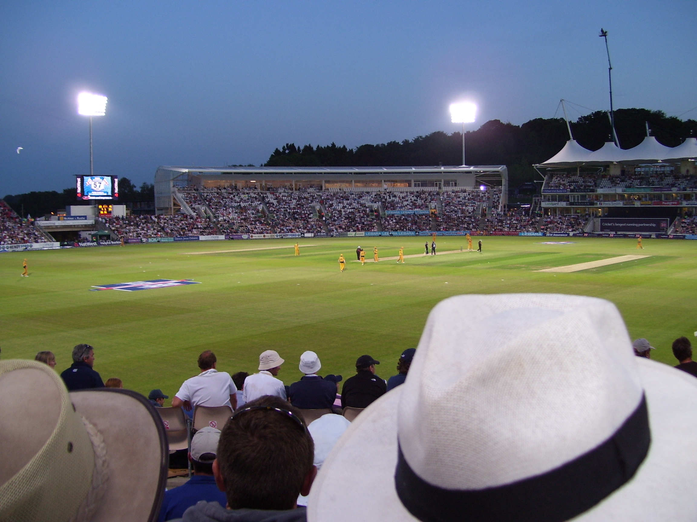 England vs Australia, Rose Bowl, 22/06/2010